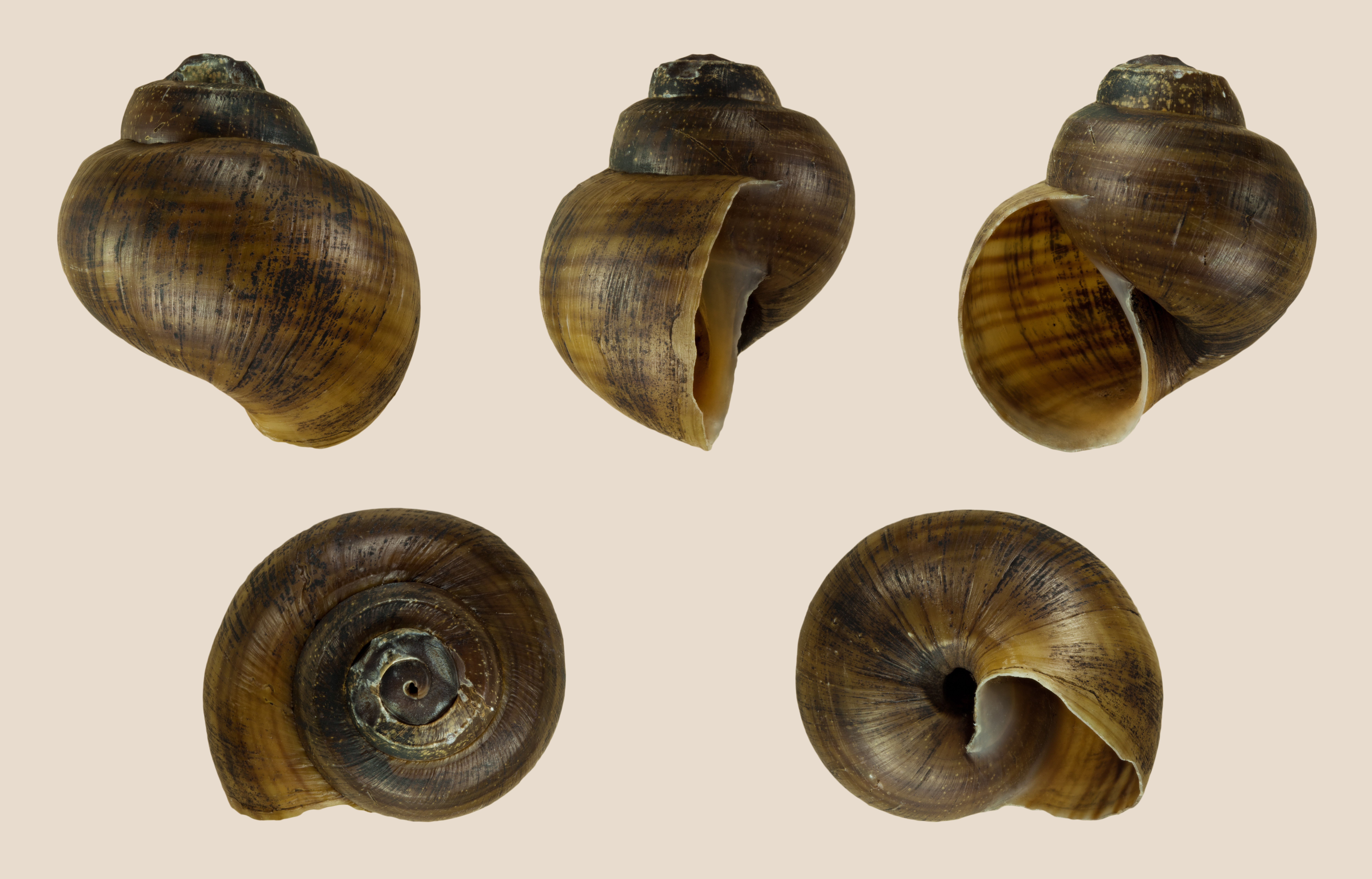 Lanistes bernardianus (Morelet, 1860); height 2.9 cm; Originating from Douala, Cameroon; Shell of own collection, therefore not geocoded.